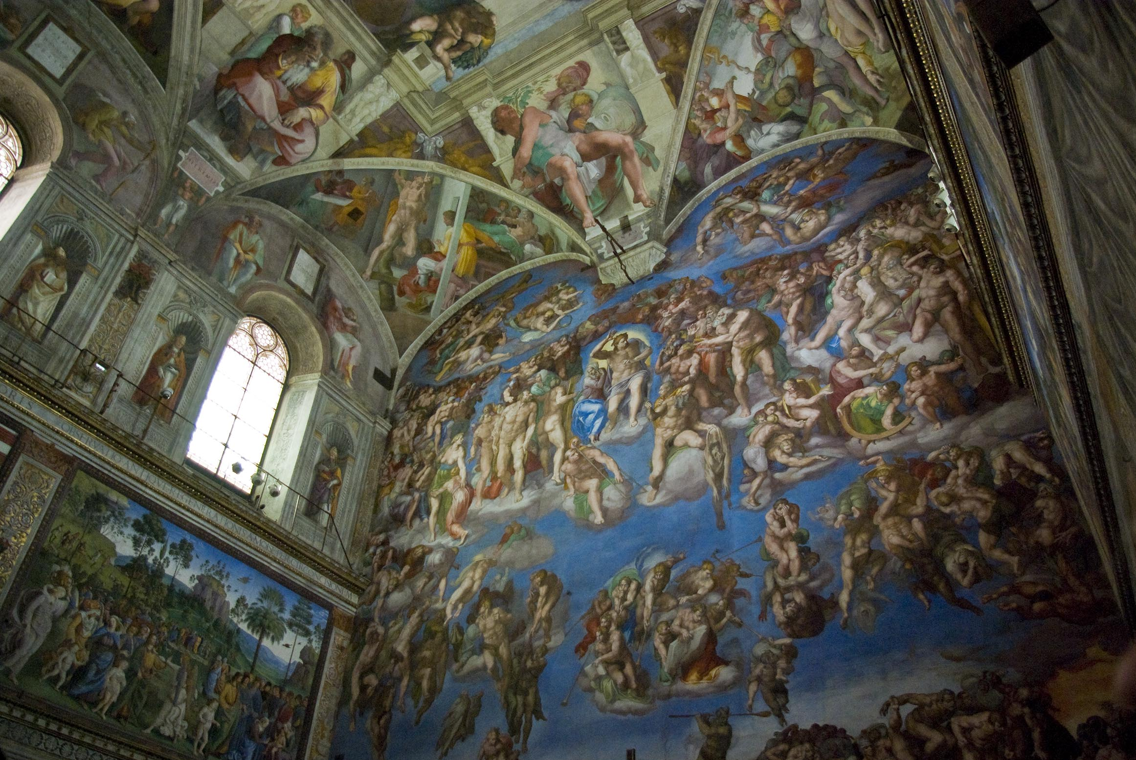 The Sistine Chapel